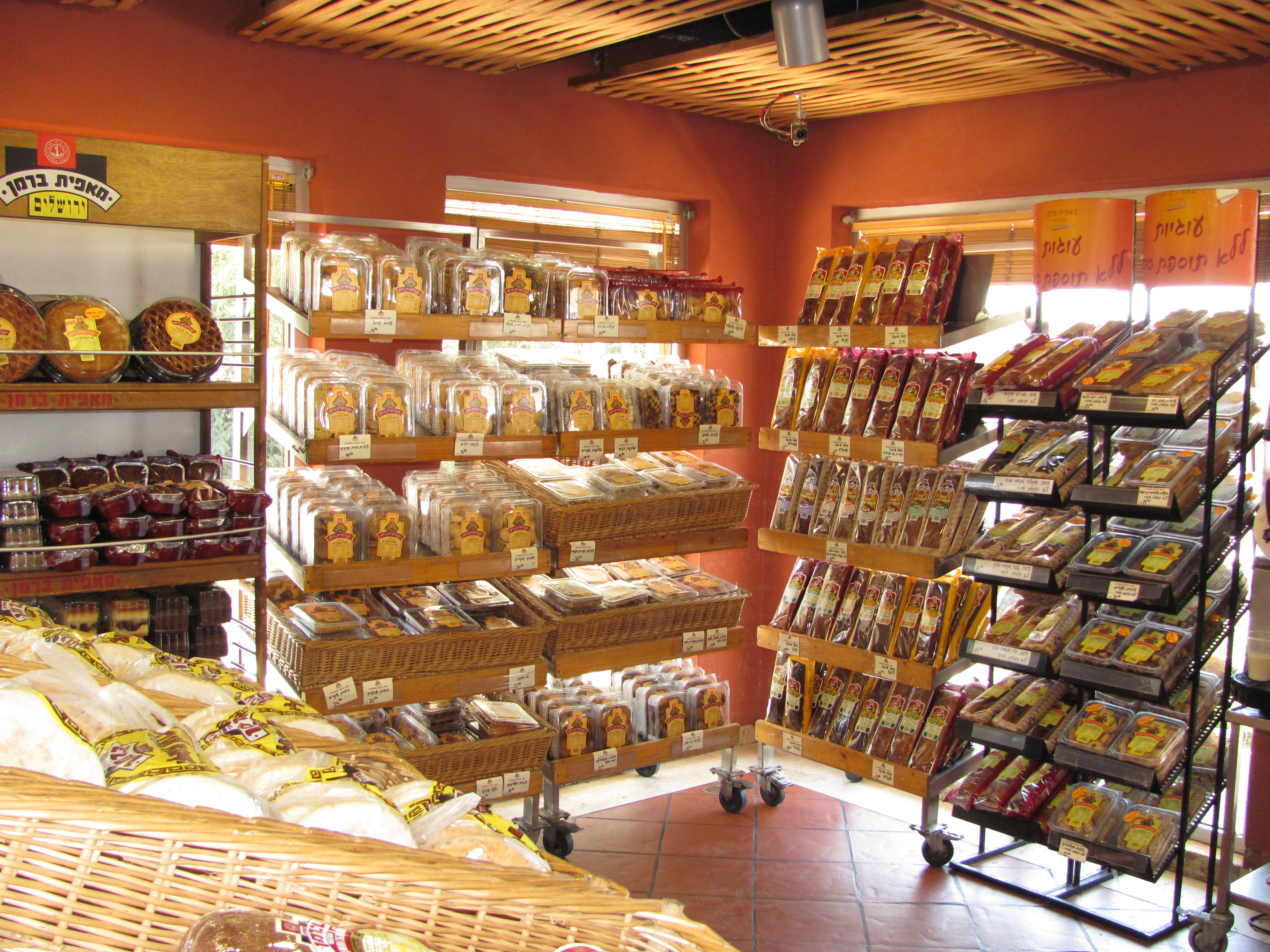 Display of breads and cakes in Berman's Bakery store, 24 Beit Hadfus Street, Givat Shaul, Jerusalem.